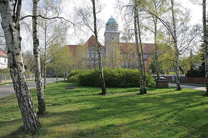 arndt-gymnasium dahlem